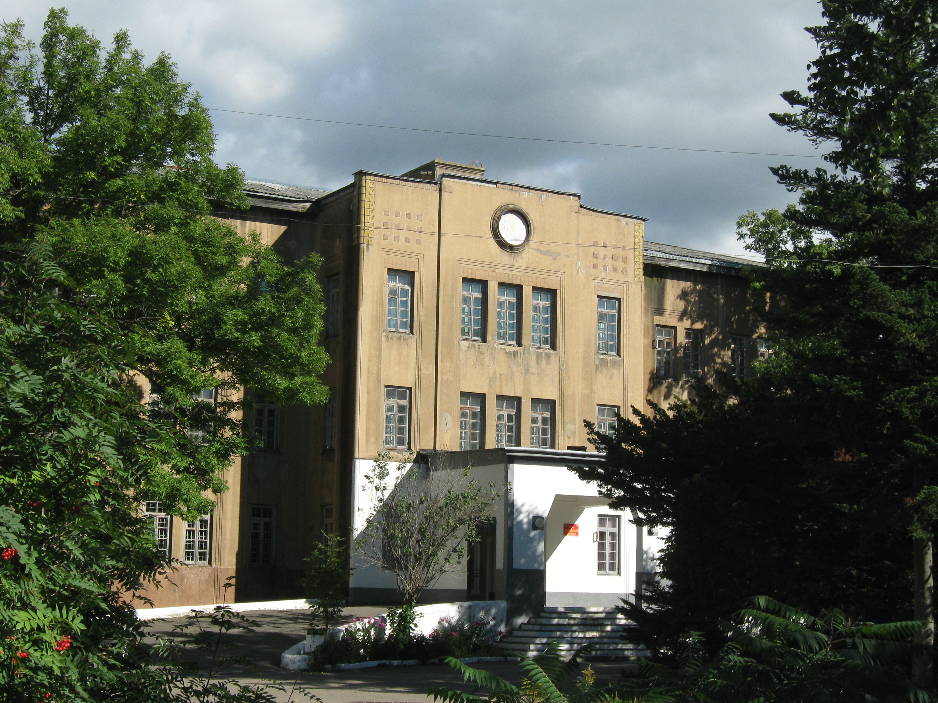 The main entrance to the military hospital in Yuzhno-Sakhalinsk, Russia on Chekhov street. Built in early 1930s under japanese government at the south Sakhalin (the former prefecture of Karafuto and city of Toyohara) as a city hospital.